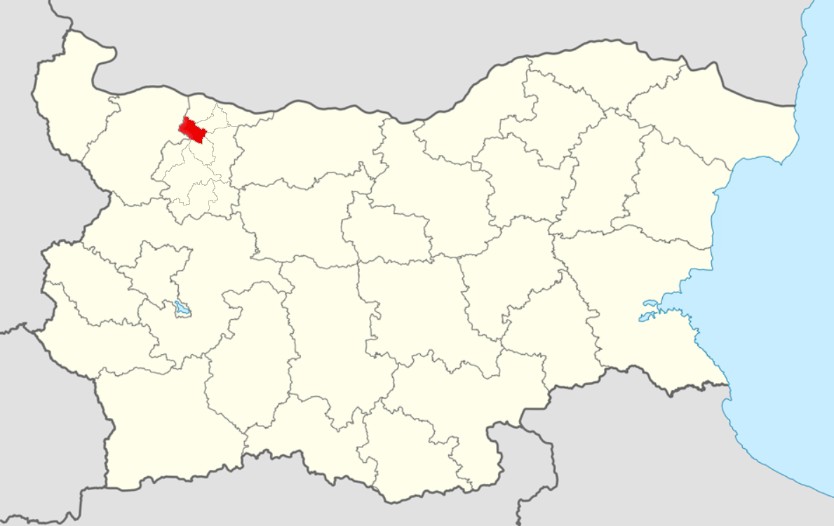 Location map of Hayredin Municipality within Bulgaria and Vratsa Province.